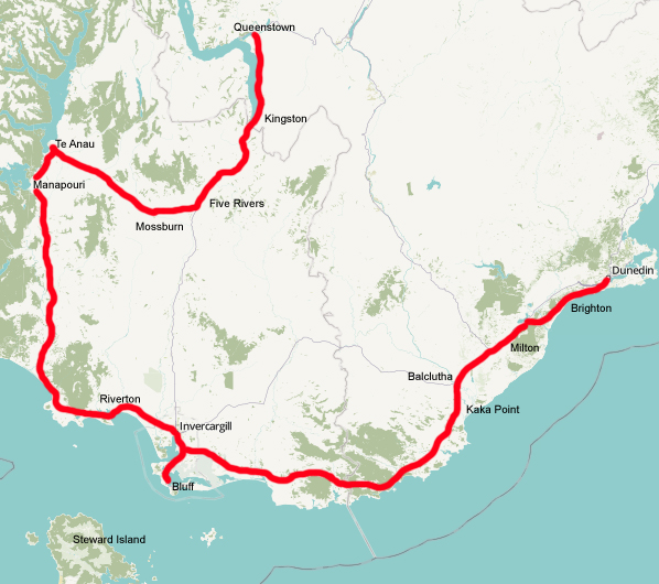 Southern Scenic Route New Zealand